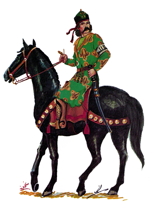 Iranian Persian Saffardi Soldier uniform